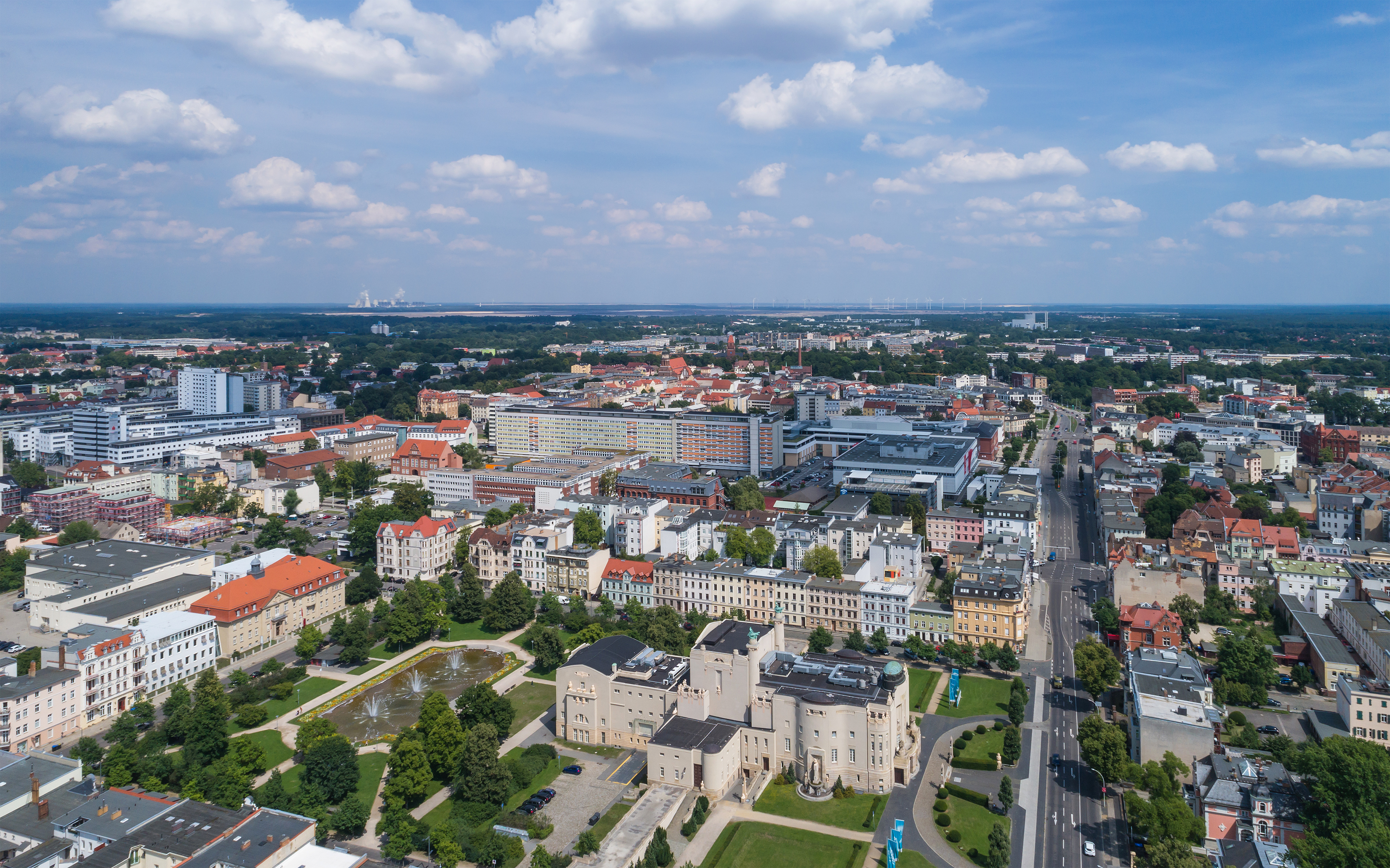 Aerial photo of Cottbus (Germany)